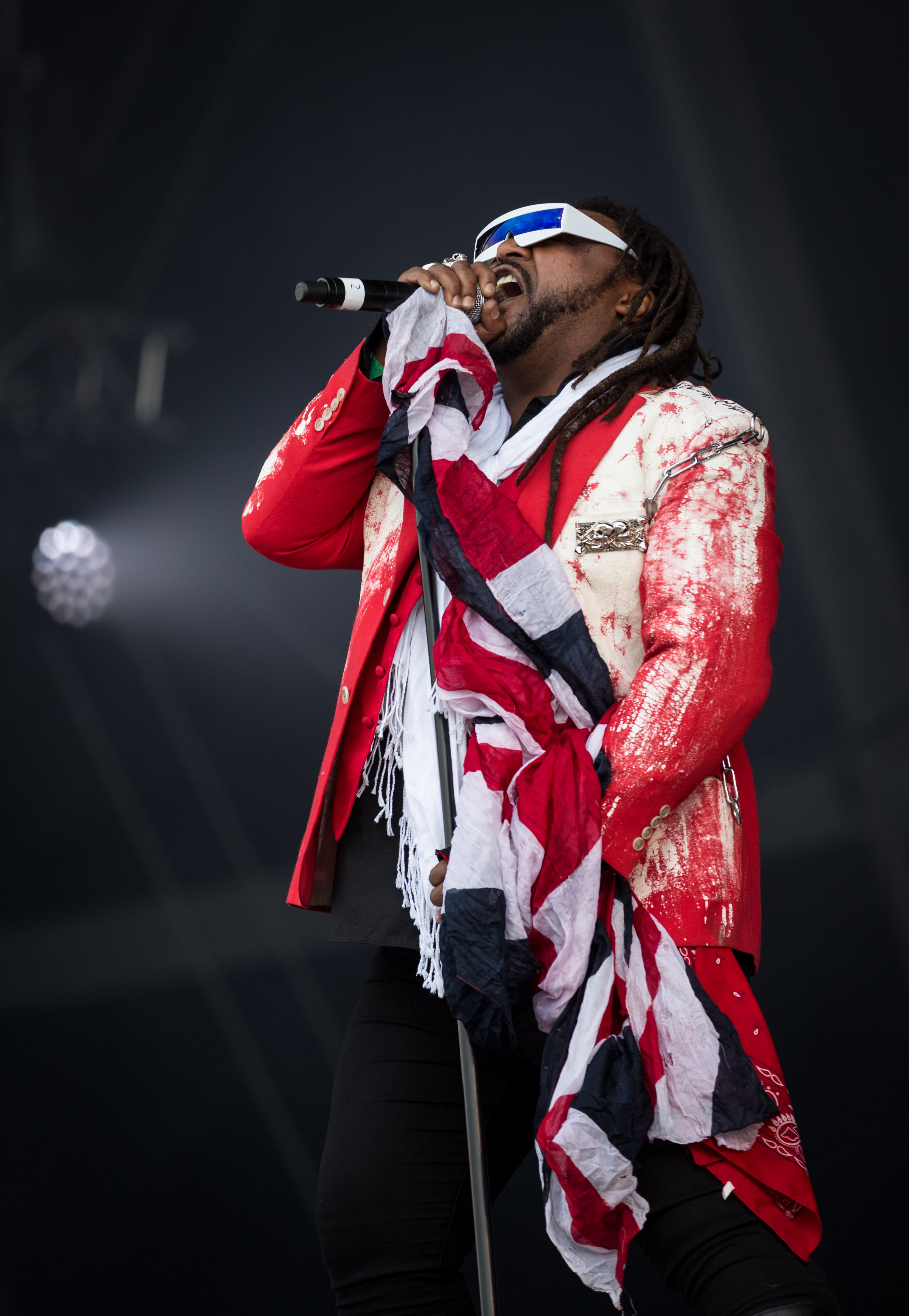 Skindred - Wacken Open Air 2015